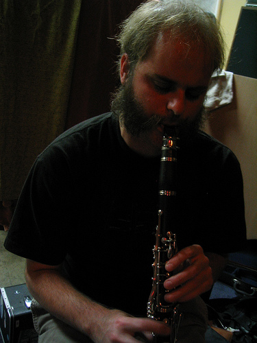 Matt Ingalls